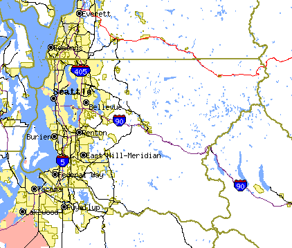 King Couny, WA from U.S. Census Bureau